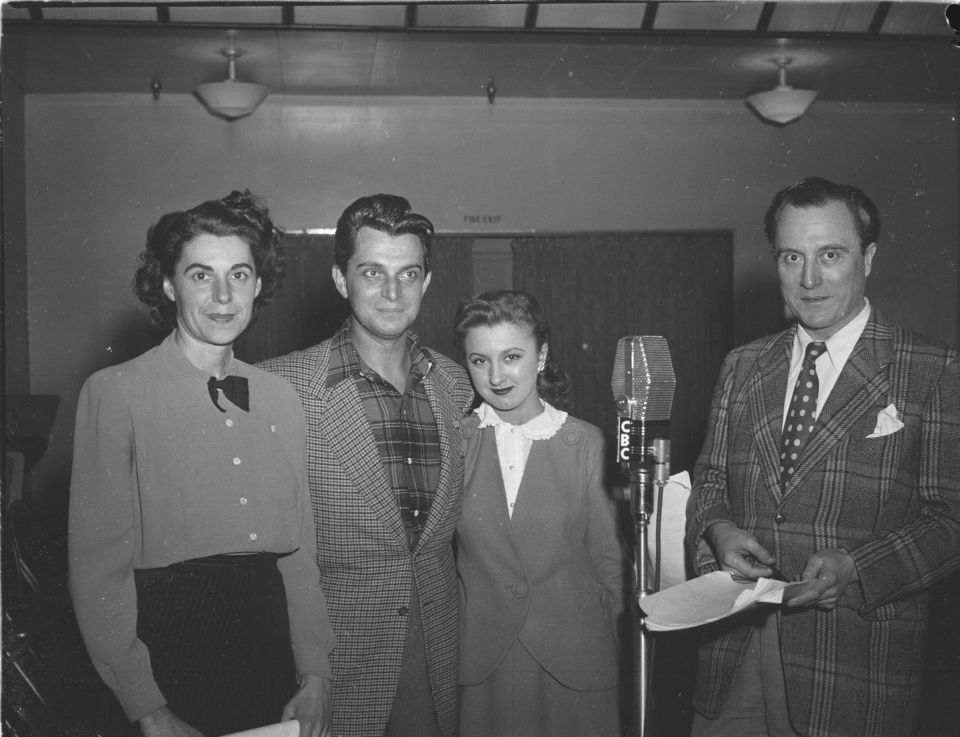 Judith Jasmin director with Paul Cambo miss Saint-Pierre and François Rozet the microphone. They are in a studio of the station C.B.C. (Radio-Canada) in Montreal.